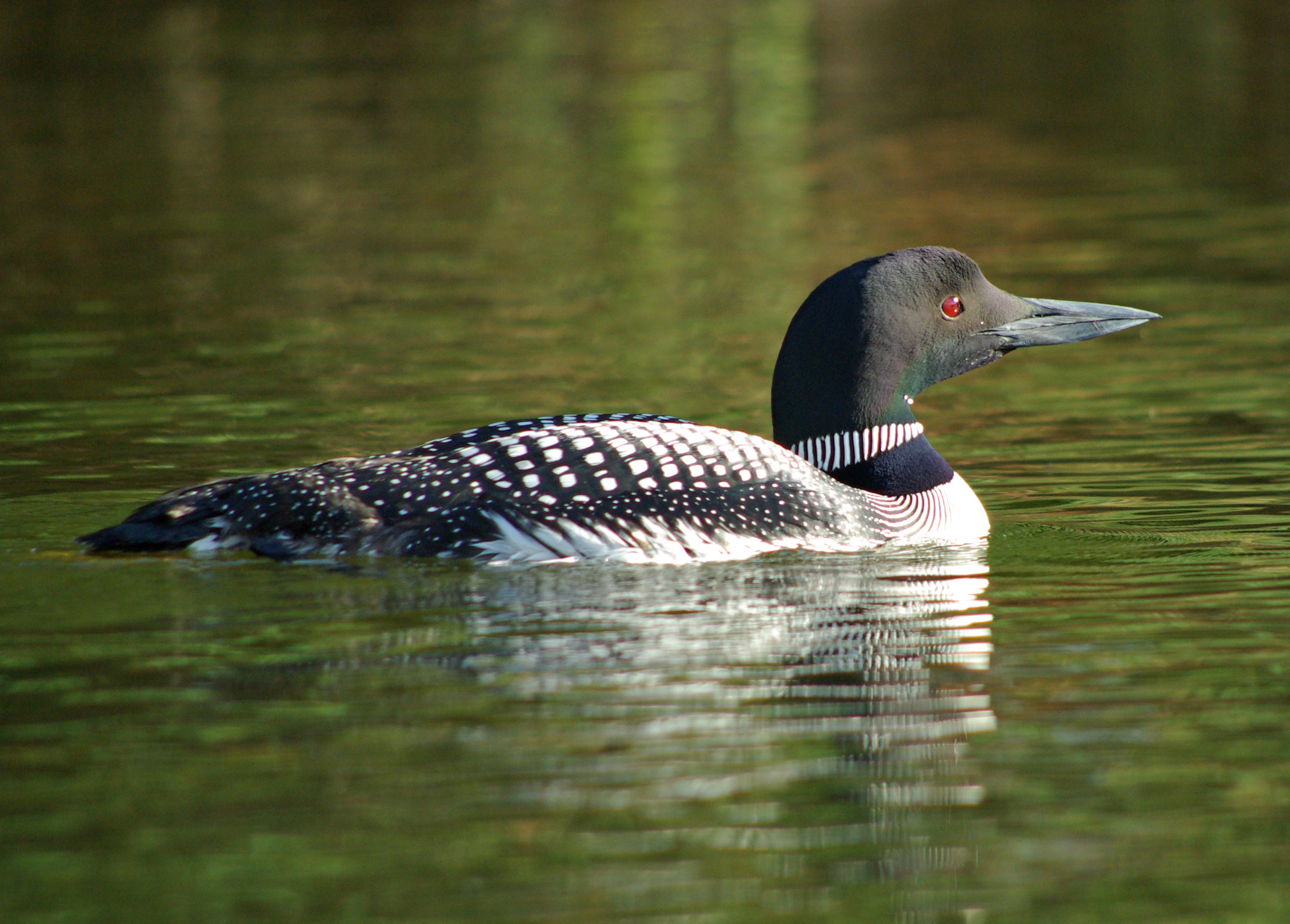 A Great Northern Loon (also known as the Great Northern Diver and the Common Loon) in Marshfield, Vermont, USA.